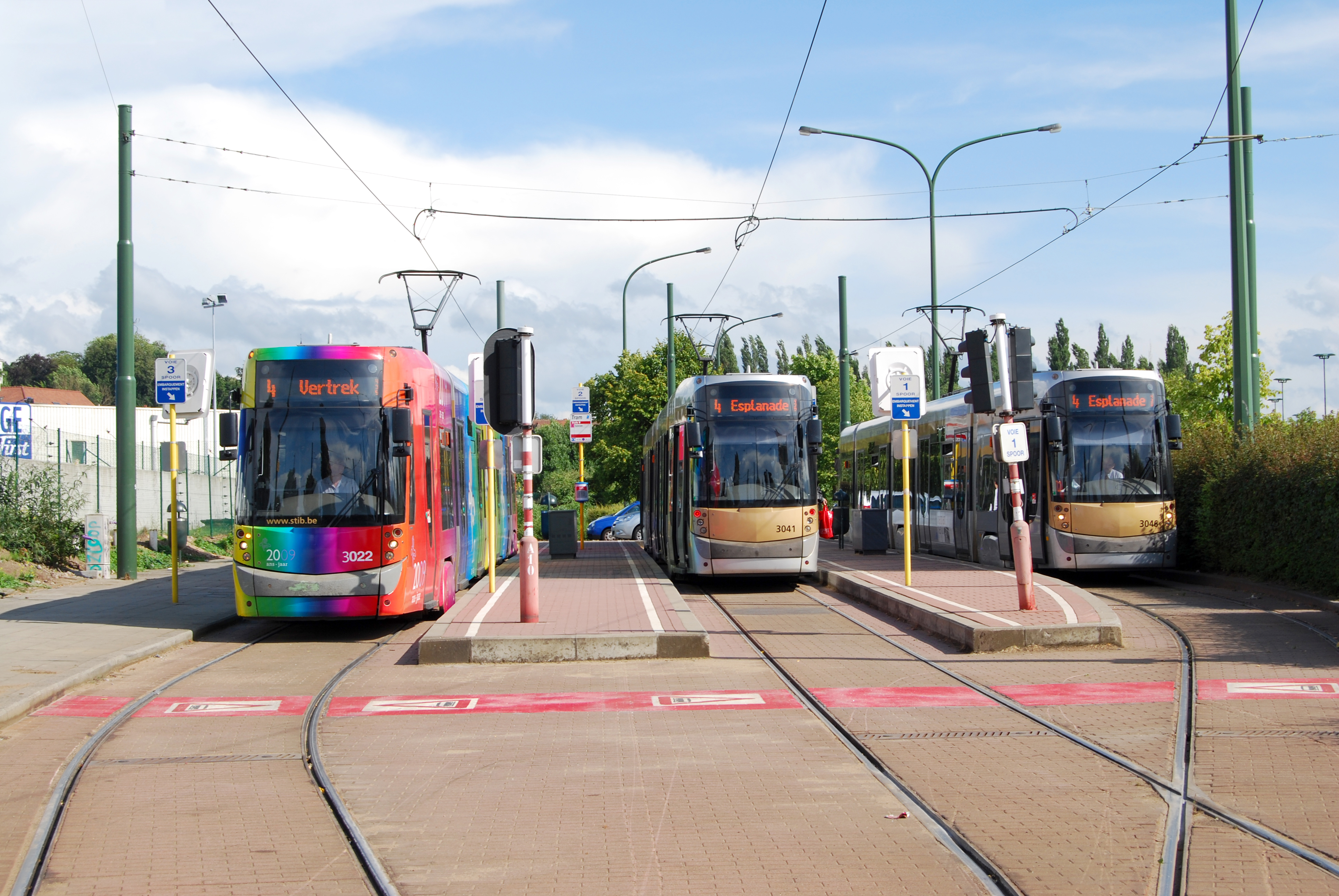 Plusieurs motrices au terminus Stalle Parking.